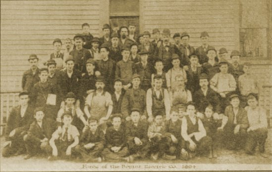 Bryant Electric Company workers photographed in 1894